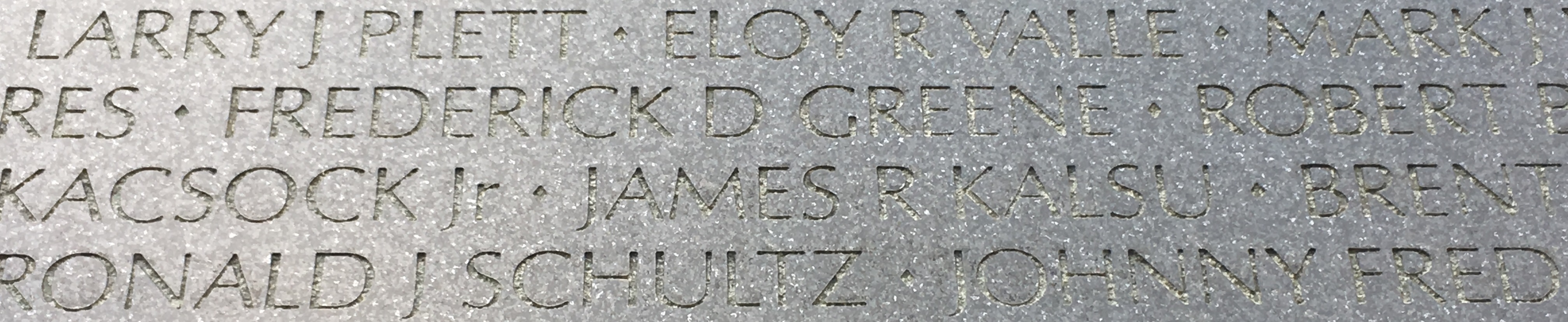 James "Bob" Kalsu's name on the Vietnam Veterans Memorial (Panel 08W - Line 38).